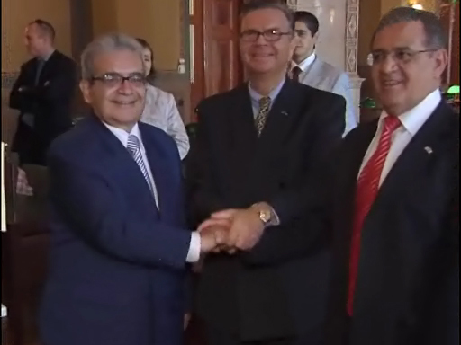 HISTORICAL HANDSHAKE IN PORVOO, FINLAND 27.8.2007. OPENING OF THE CHILDREN'S PARLIAMENT OF THE PEACEFUL JERUSALEM in front of the tv-cameras: Palestine delegate to Finland Nabil Alwazir, President of Children's United Parliament of the World Jyrki Arolinna and Ambassador of Israel Shemi Tzur.